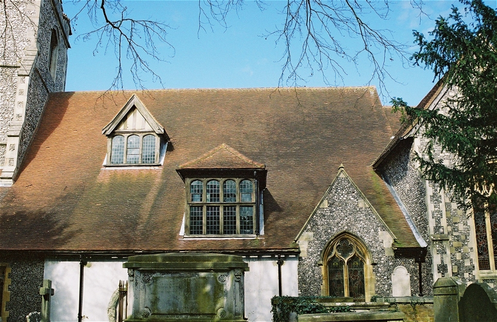 The Church of St. Mary & St. Nicholas, Leatherhead - the Nave, seen from the South.